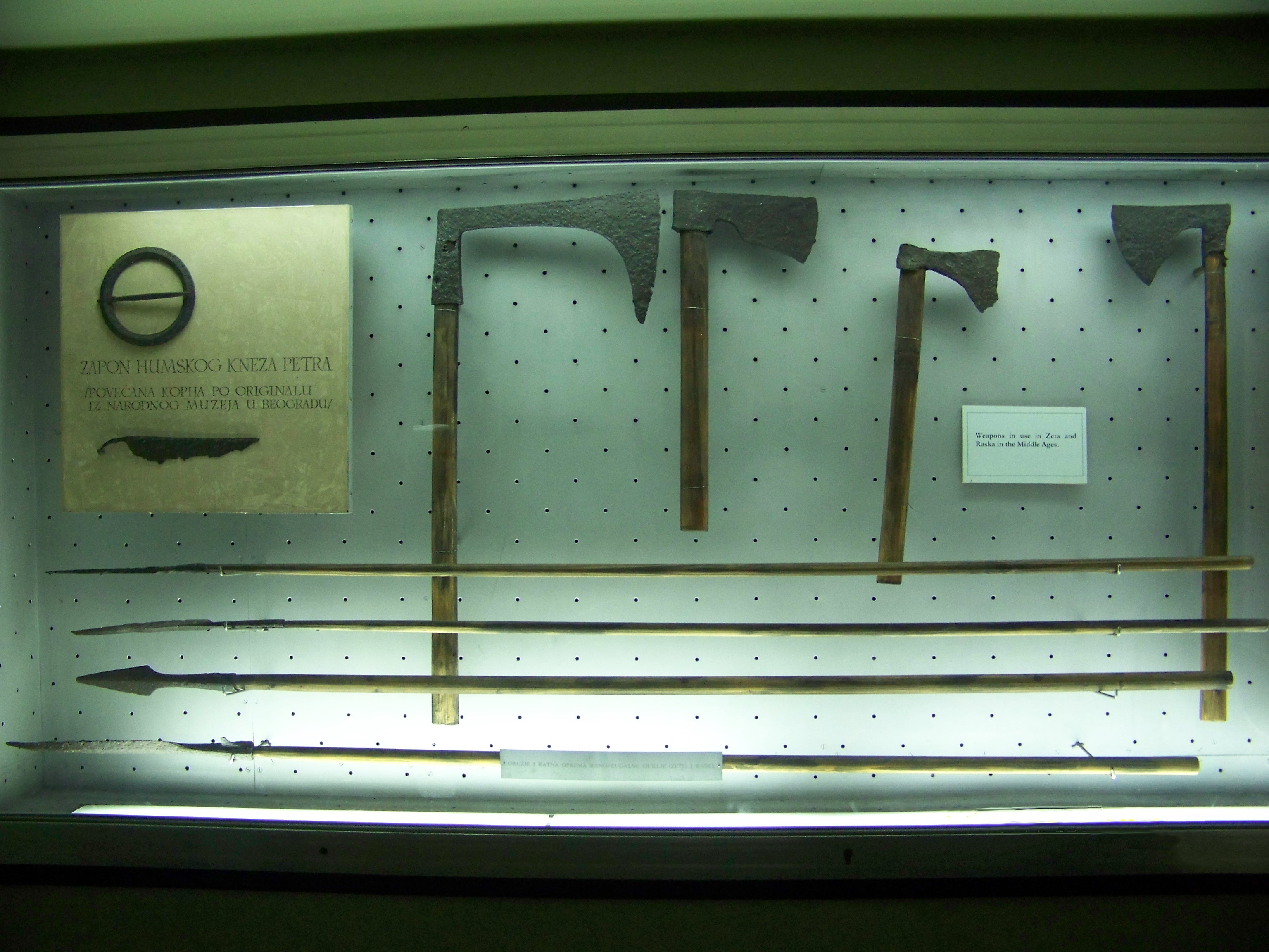 Weapons from Raška and Zeta, Serbian kingdoms, Middle Ages